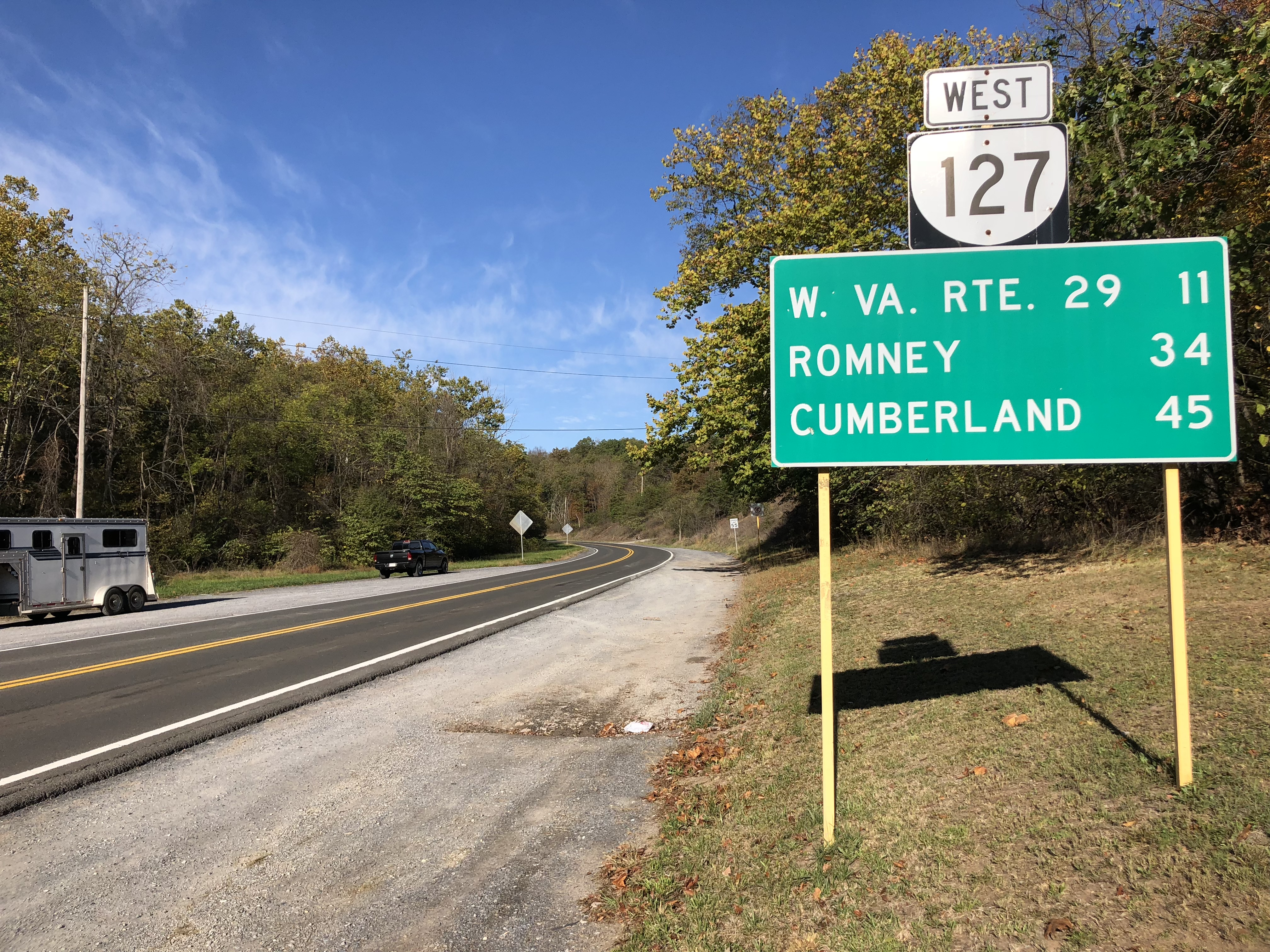 View west along Virginia State Route 127 (Bloomery Pike) at U.S. Route 522 (North Frederick Pike) in northern Frederick County, Virginia